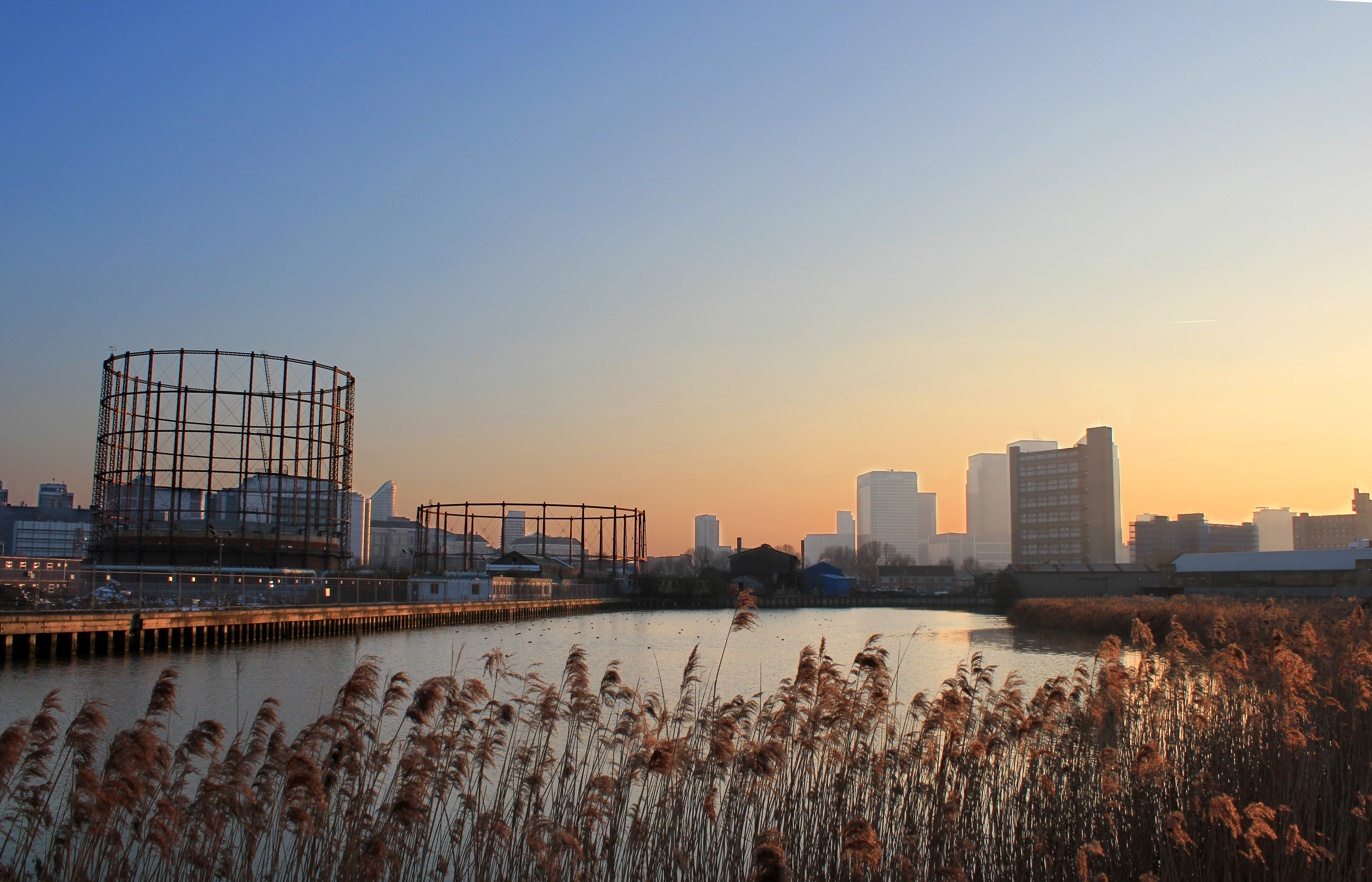 Bow Creek, River Lea, Blackwall, Newham.